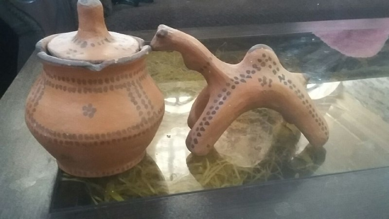 نمونه محصولات سفال دست ساز در کلپورگان سراون هنر زنان بلوچ